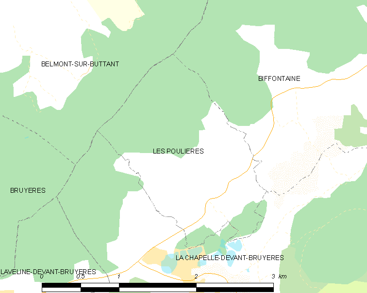 Map of French municipality Les Poulières